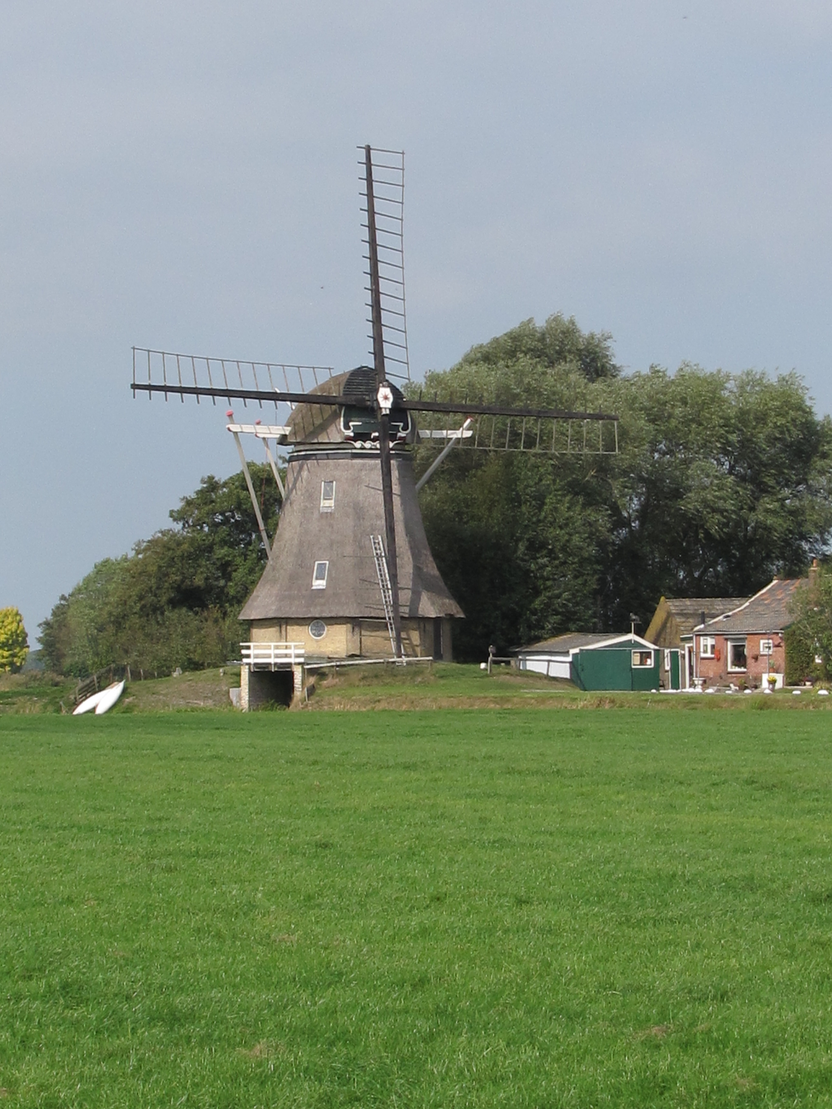 Big windmill near Broeksterwâld